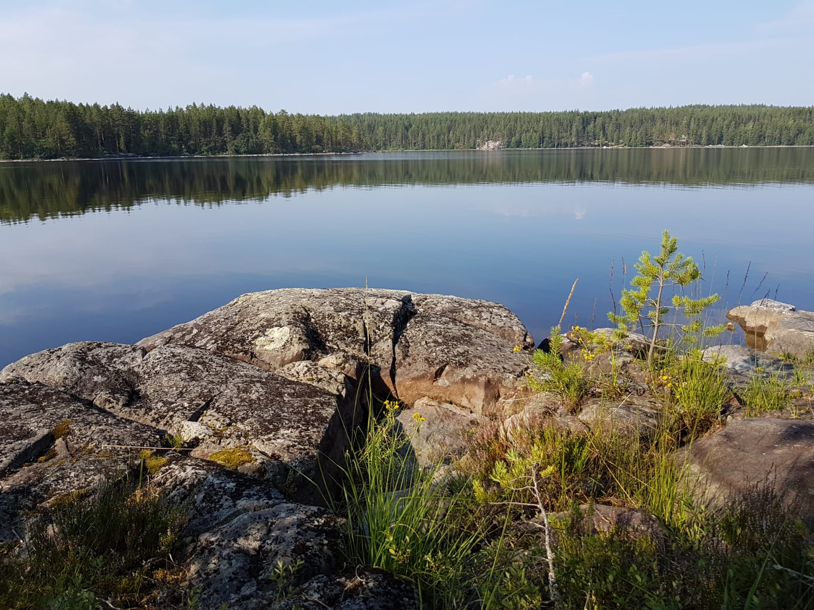 View of lake Pielinen in Eastern Finland